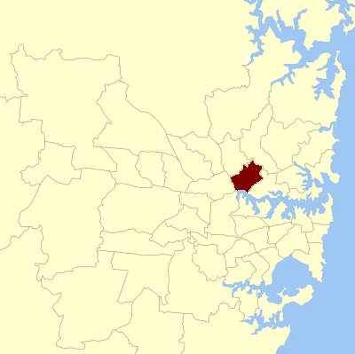 Location of the New South Wales Legislative Assembly electoral district within Sydney in New South Wales. Reference: [1]